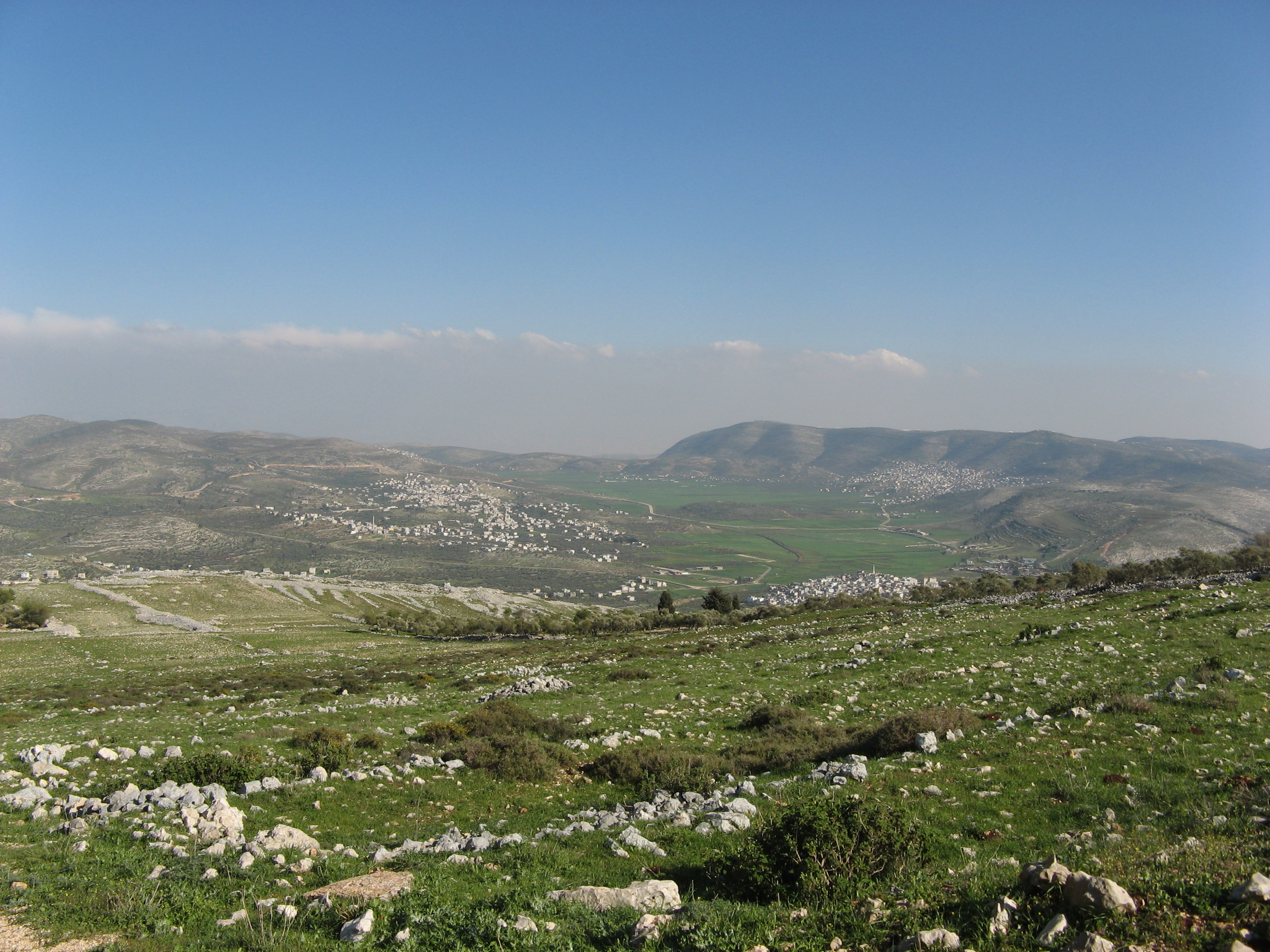 View south east from mount ebal, near nablus. to see other versions of this file search "file:mount ebal, near nablus" on Wikimedia Commons.